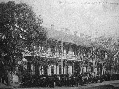 Tucumán train station built by Argentine North Western Railway. It would be sold to Córdoba Central in 1899.